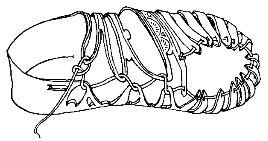 Shoe of the iron aged bog body Mann von Obenaltendorf found in 1895